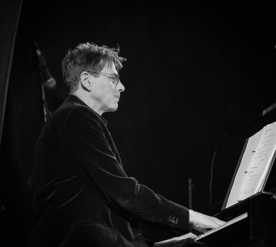 Morten Gunnar Larsen with Norbert Susemihl at the stage at Gamla at Stortorvets Gjæstgiveri. The concert was part of Oslo Jazzfestival and took place on 18. August 2017. Lineup: Norbert Susemihl (trumpet), Carl Petter Opsahl (clarinet), Morten Gunnar Larsen (piano), Hans Ingelstam (trombone), Jens Kristian Andersen (double bass) and Torstein Ellingsen (drums).